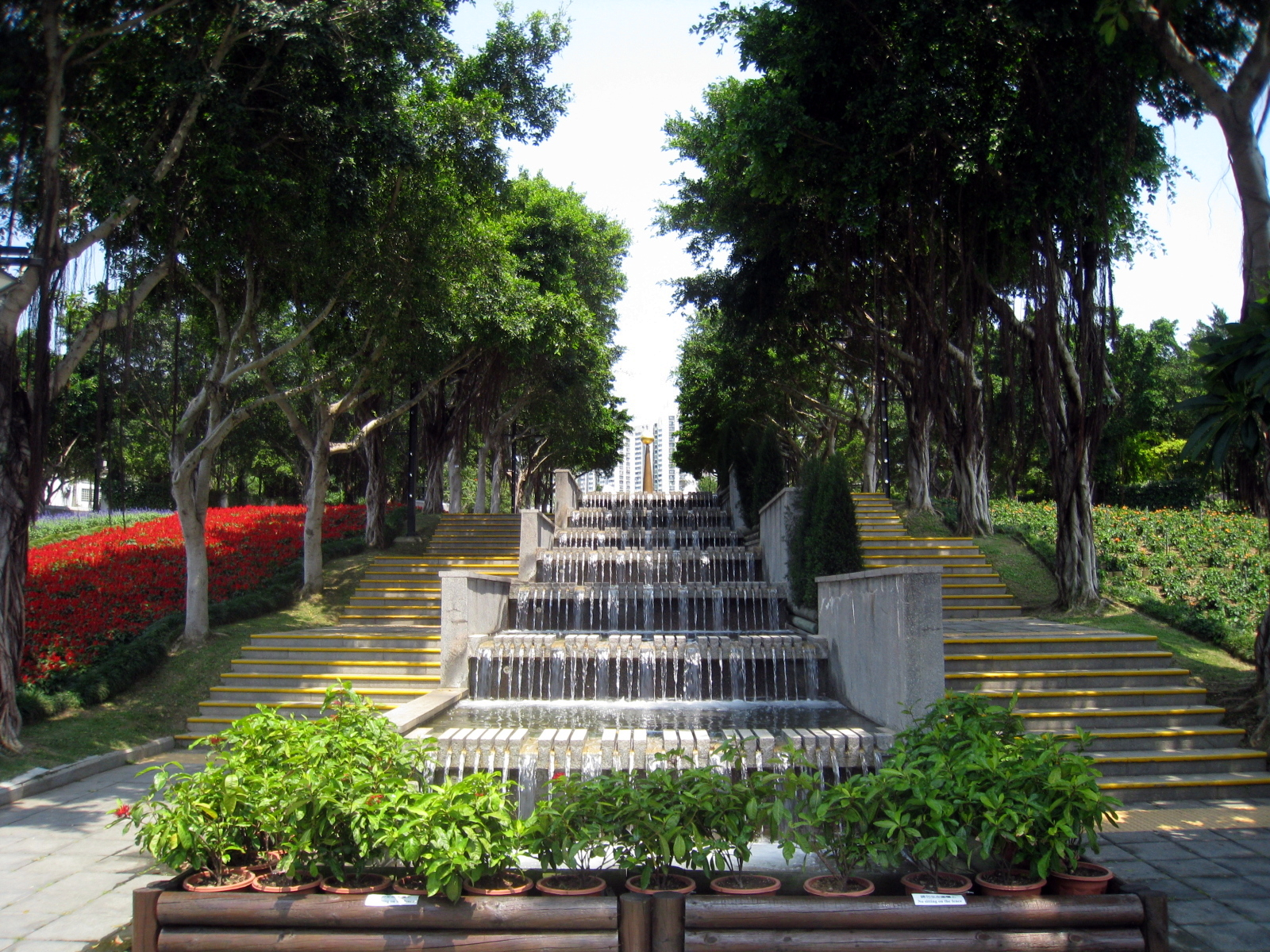 Tai Po Waterfront Park 大埔海濱公園